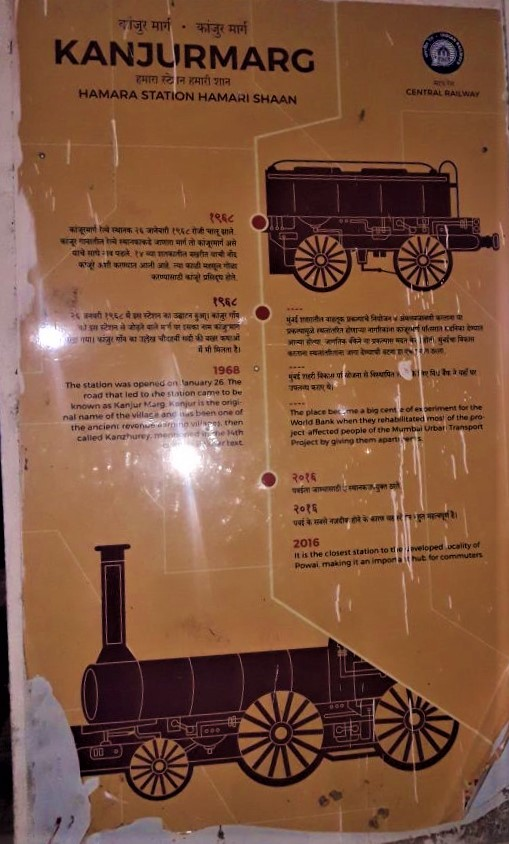 Board Showing History of Kanjur Marg Station Banner